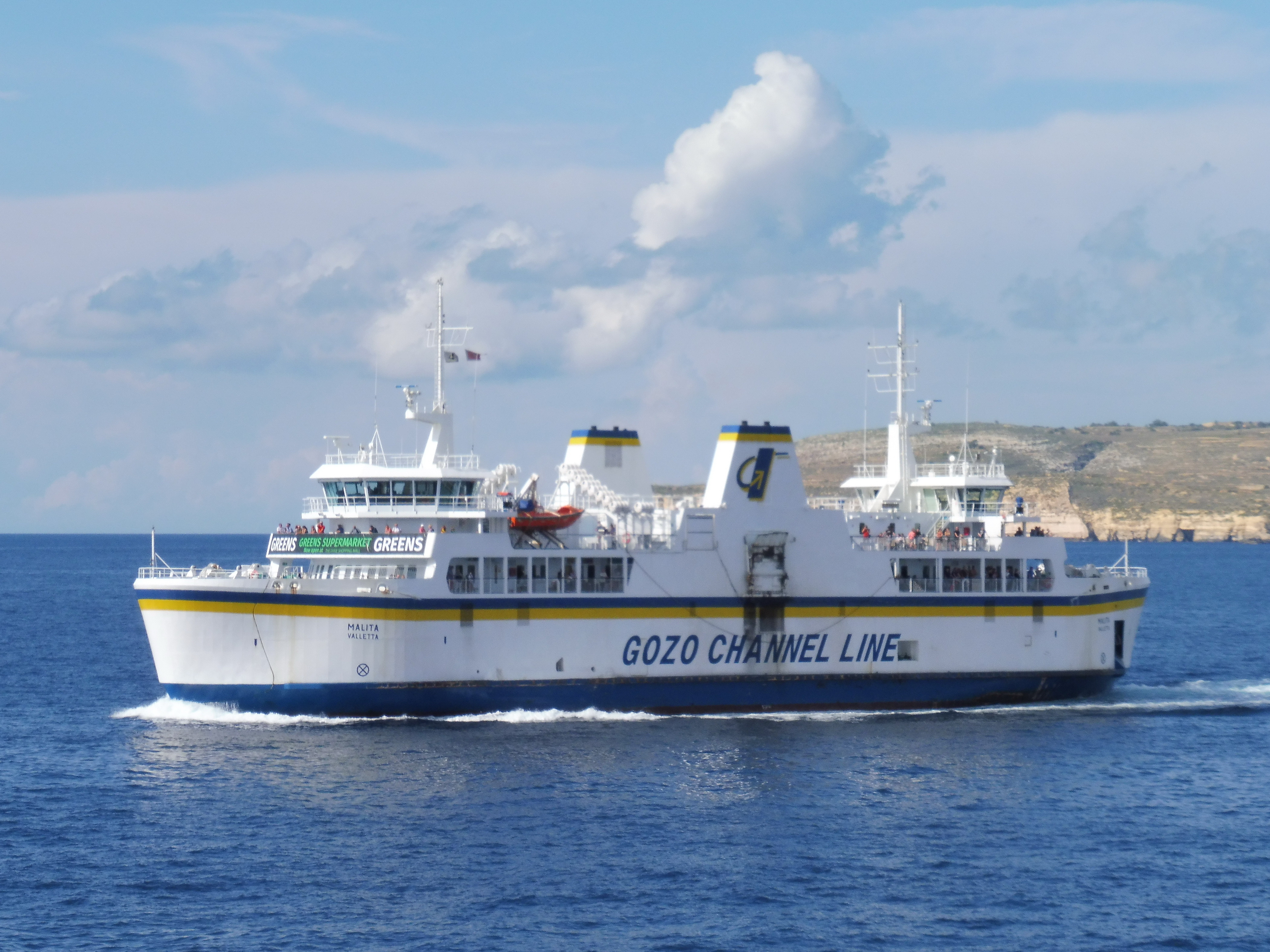 Ferry "Malita" of the Gozo Channel Line between Mgarr on Gozo and Cirkewwa (Malta), 2019